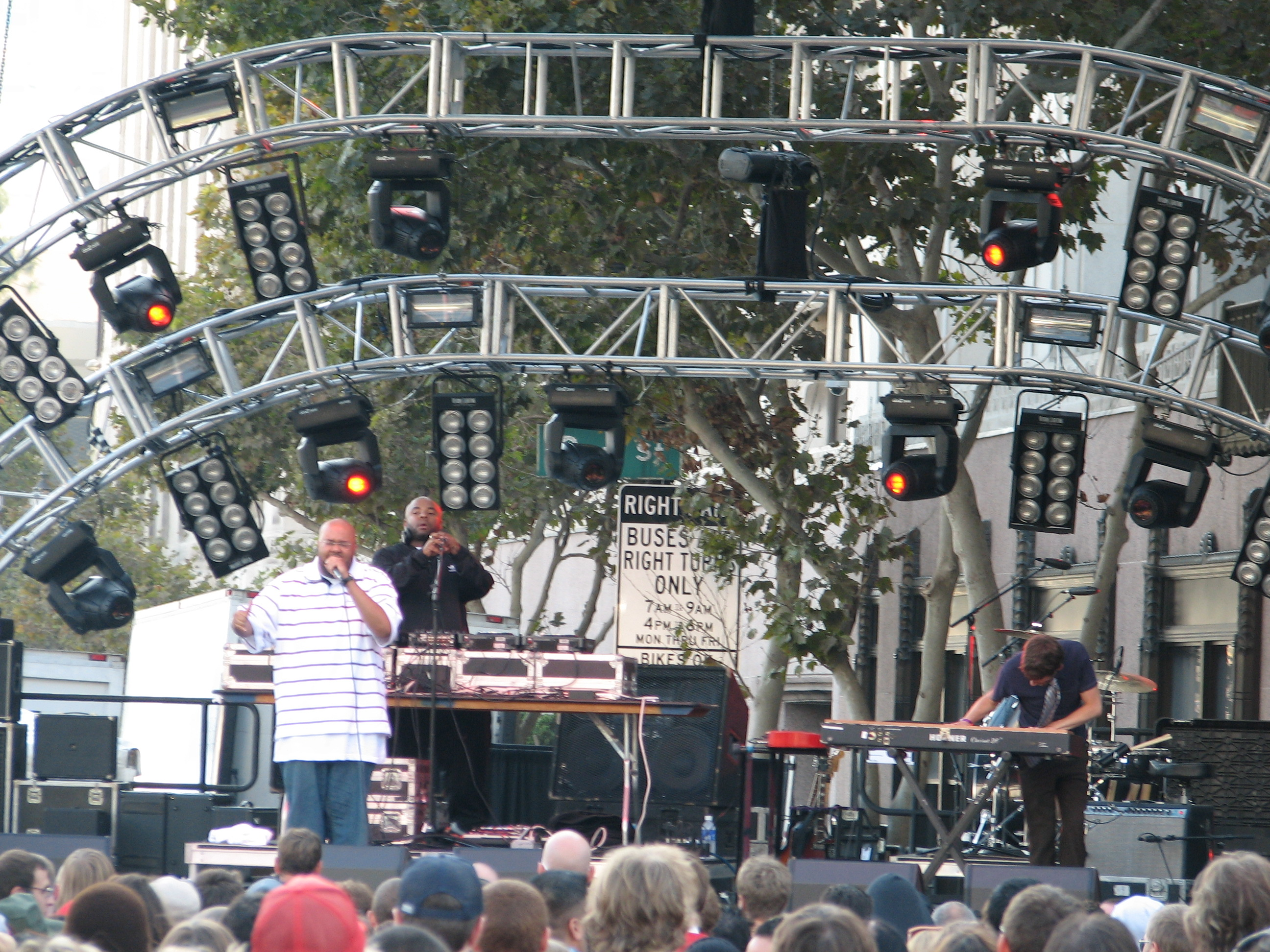 Blackalicious on Detour 2006.